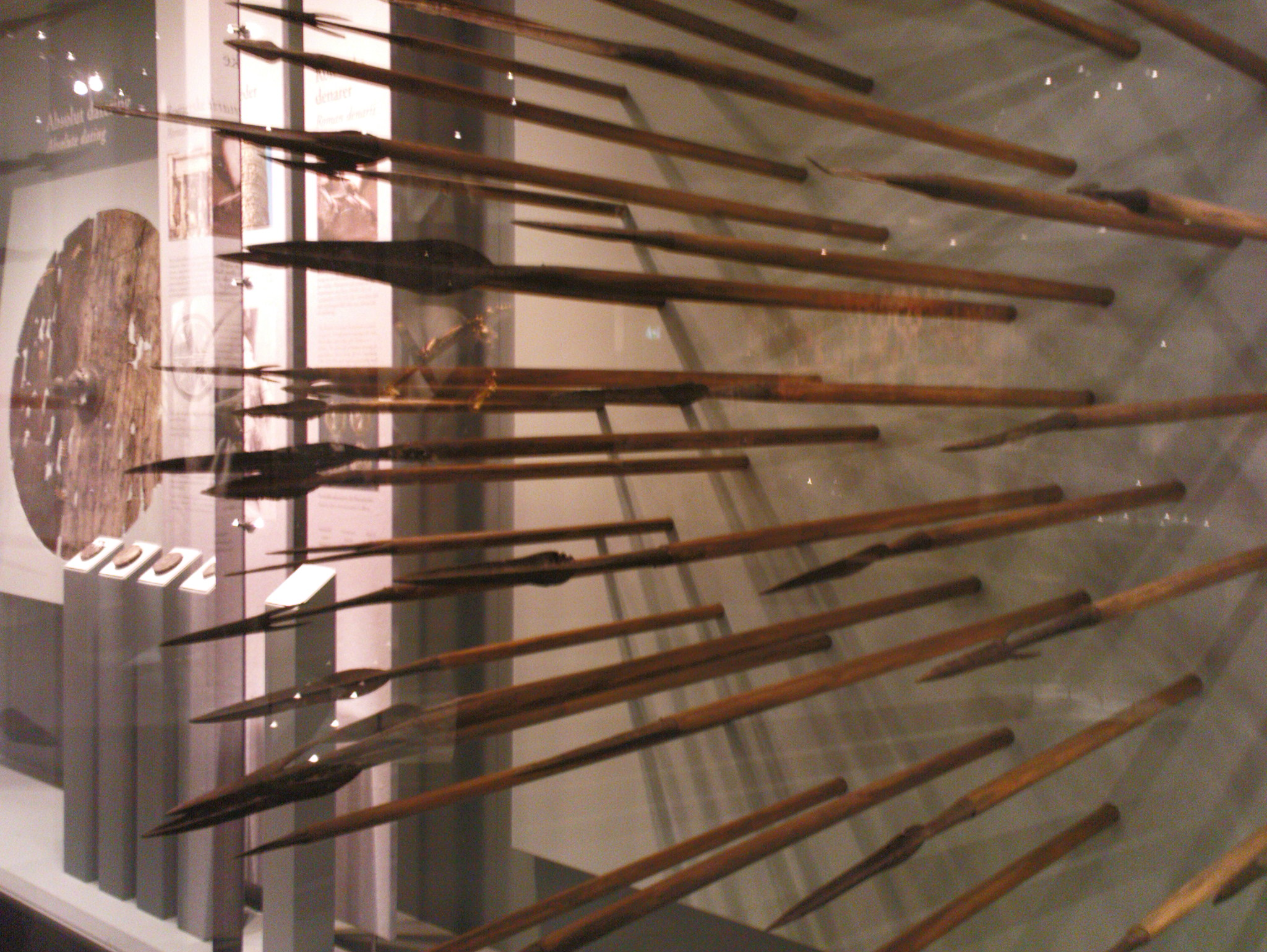 Some of the unearthed spear heads, attached to reconstructed shafts. From an exhibition at the old Moesgård Museum in 2008.